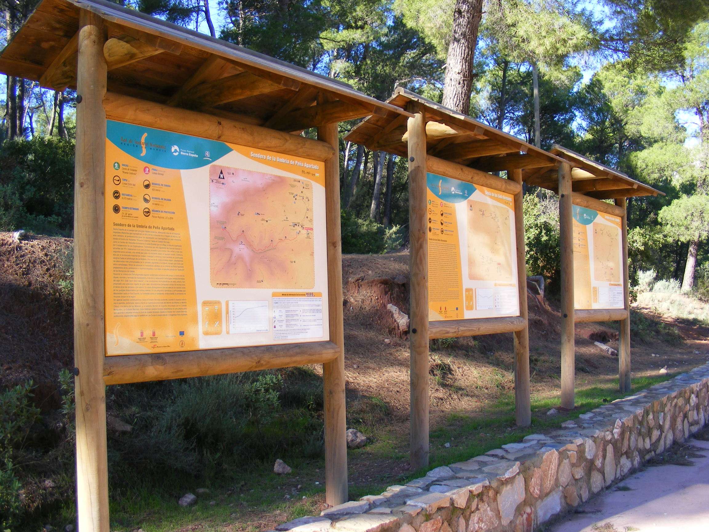 Interpretation center´s sign — Natural Park of Sierra Espuña. Region of Murcia, Spain.